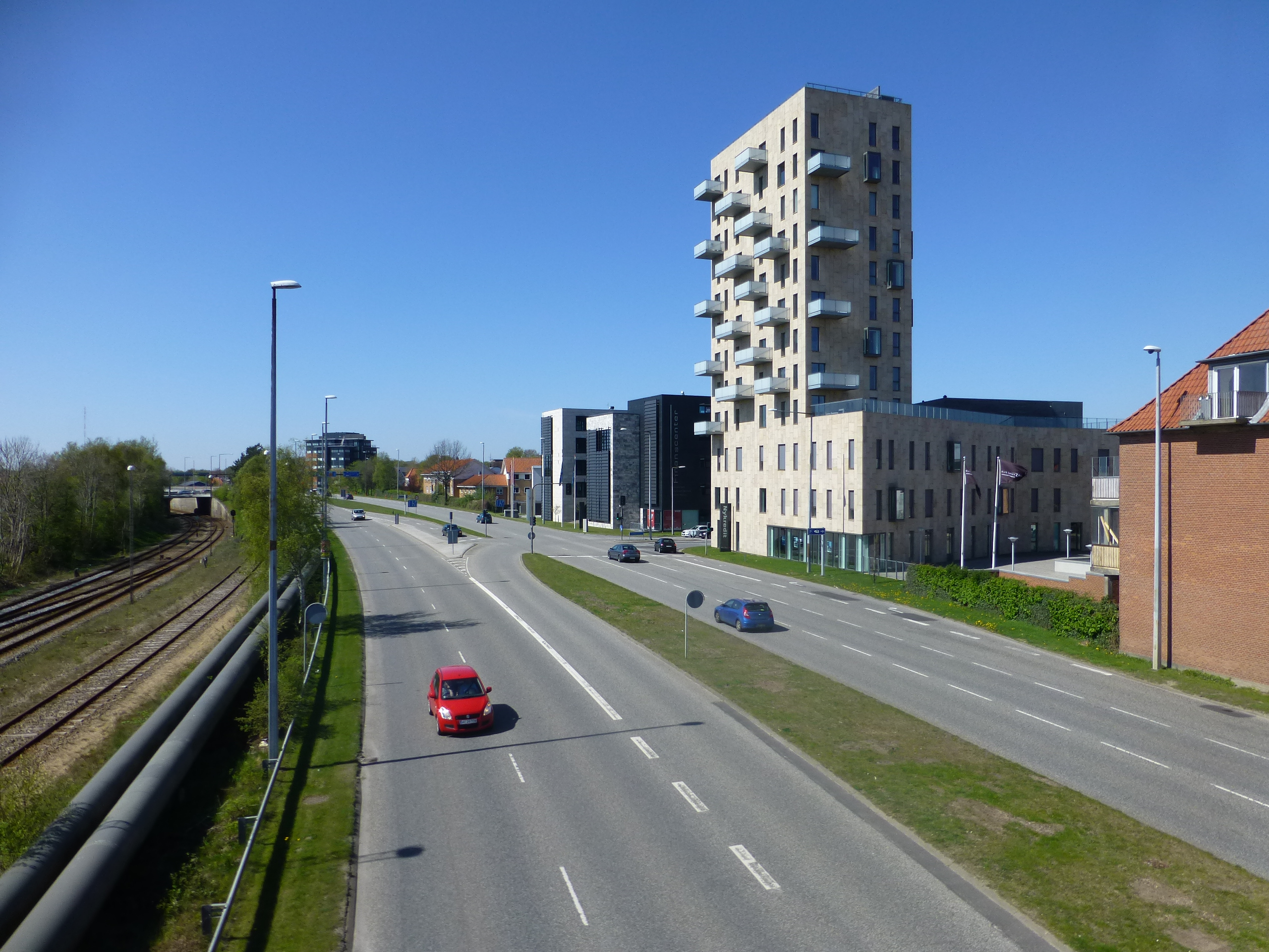 The street Dronningens Boulevard at the high-rise Queens Corner in Herning in Denmark.